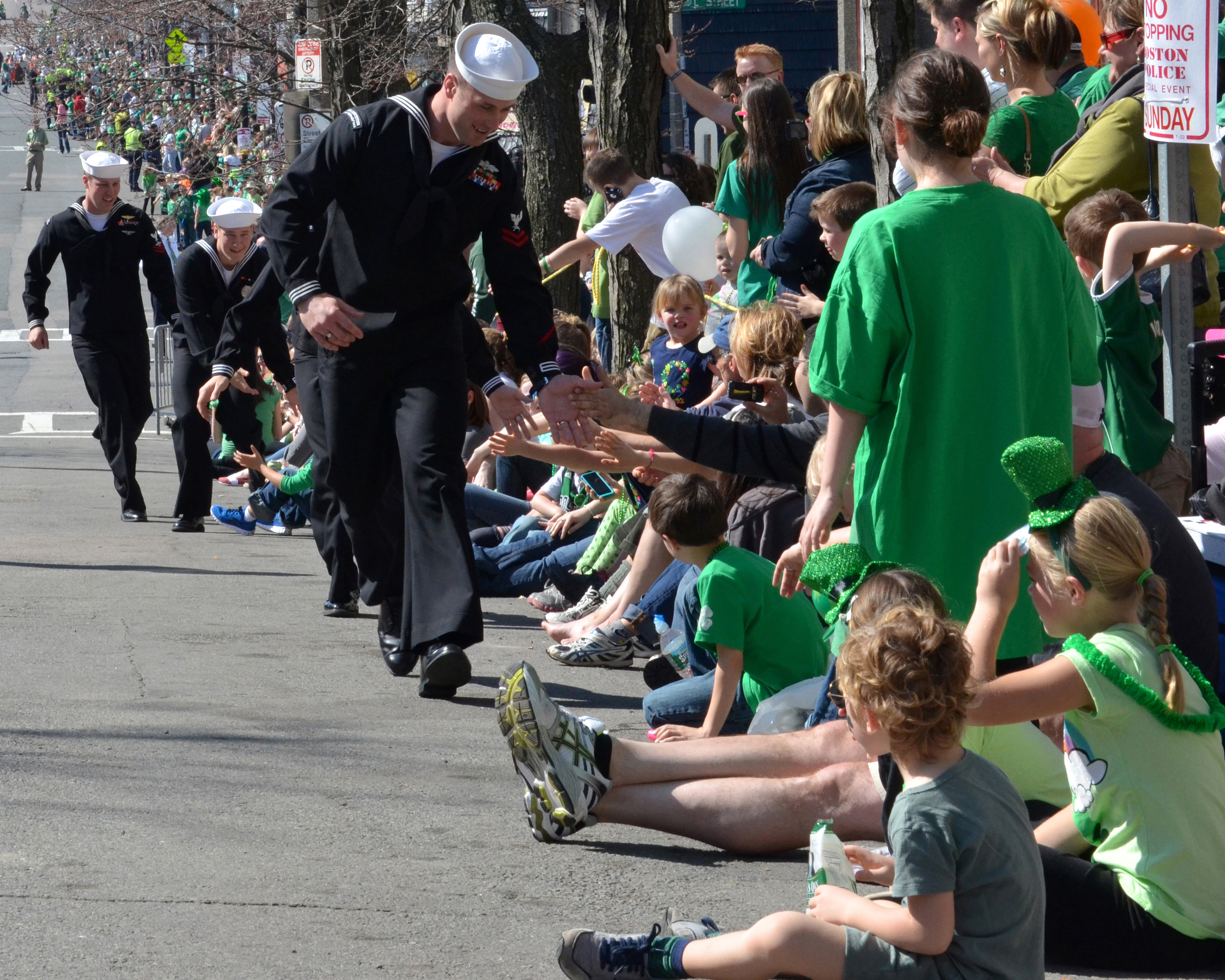 BOSTON (March 18, 2012) Yeoman 2nd Class Daniel Damato, assigned to USS Constitution, shakes hands with spectators during the 111th annual St. Patrick's Day parade. Spectators lined the three-mile parade route to honor the tradition of Boston's first Irish celebration in 1737. (U.S. Navy photo by Seaman Michael Achterling/Released) 120318-N-BJ178-815 Join the conversation navylive.dodlive.mil